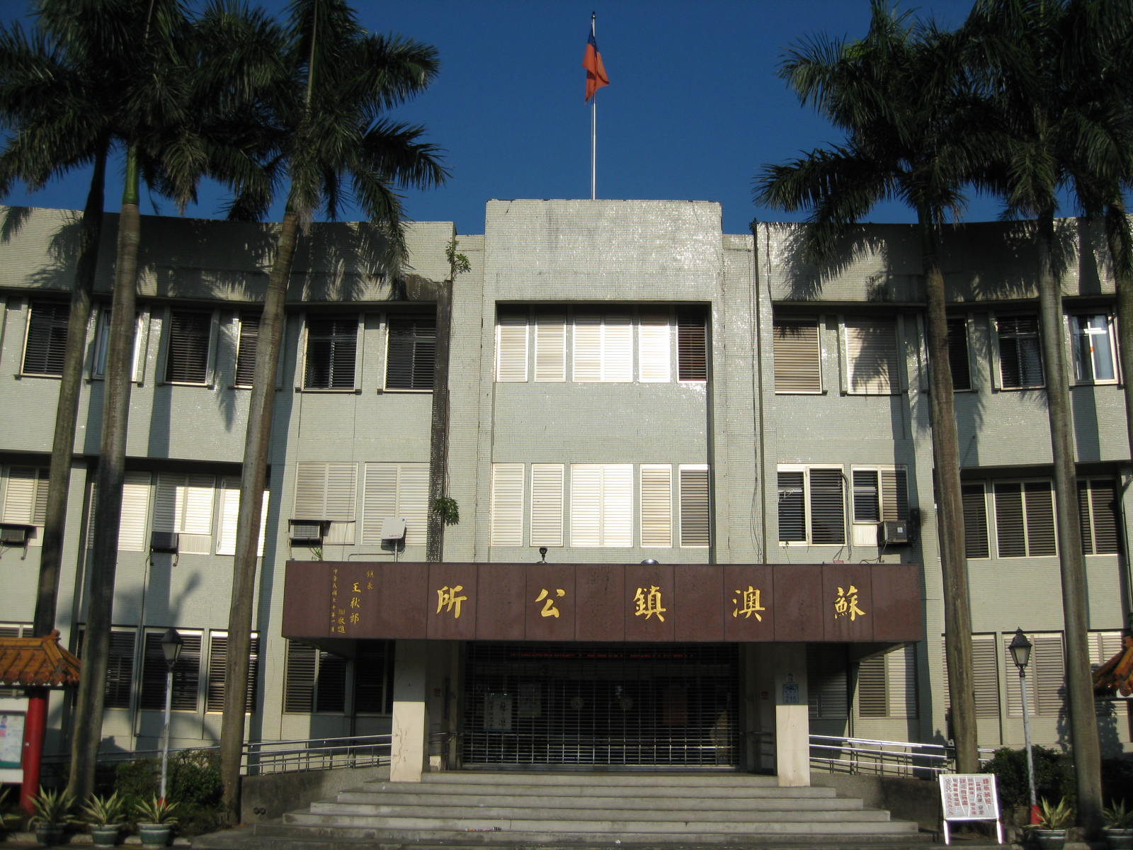 Suao Township Administration.